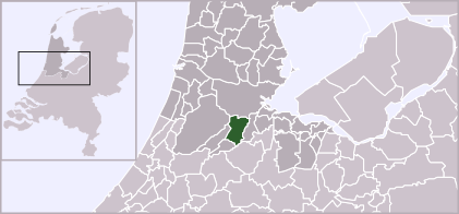 Location of Amstelveen